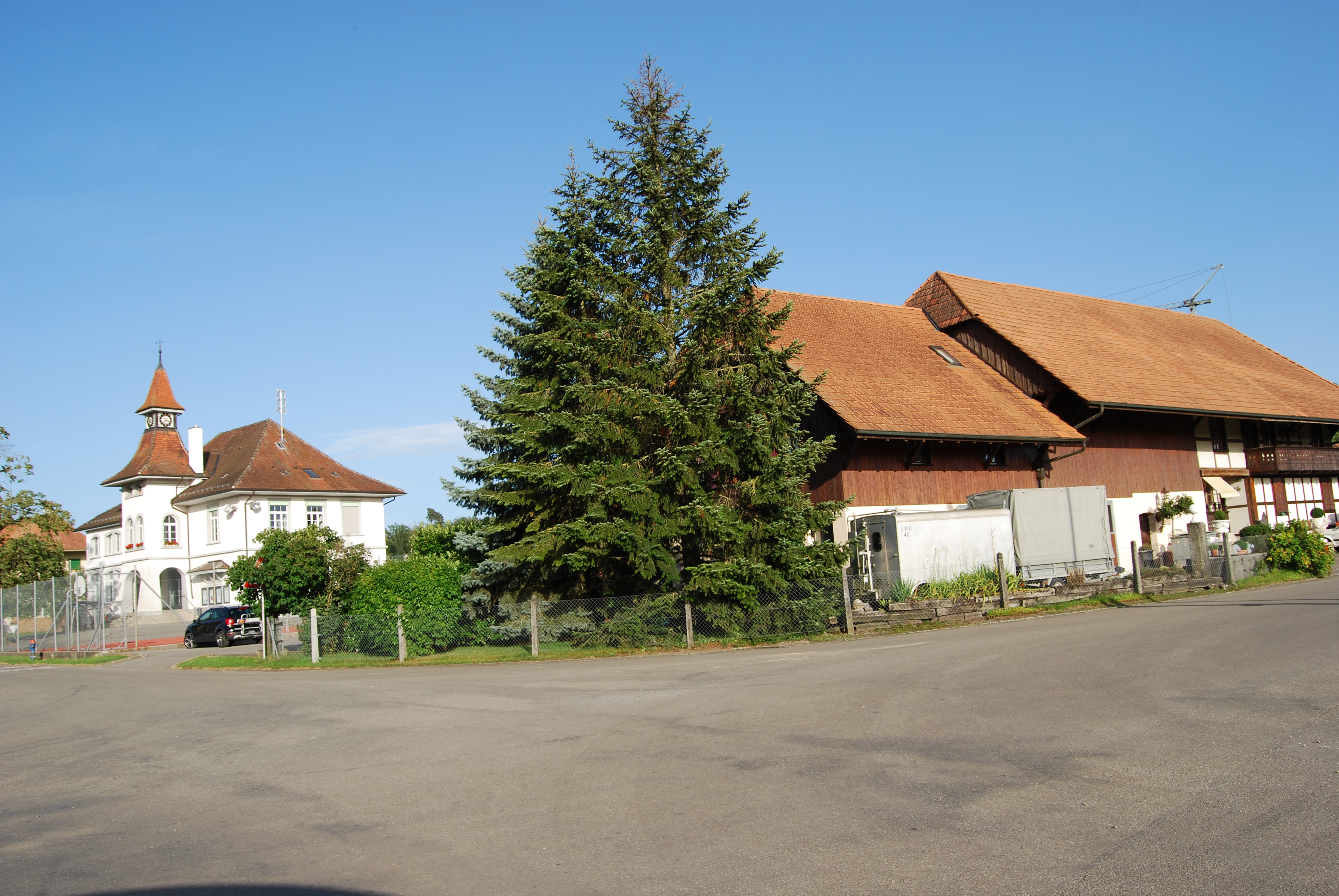 Galmiz, canton of Fribourg, SwitzerlandEsperanto: Galmiz, Kantono Friburgo, Svislando